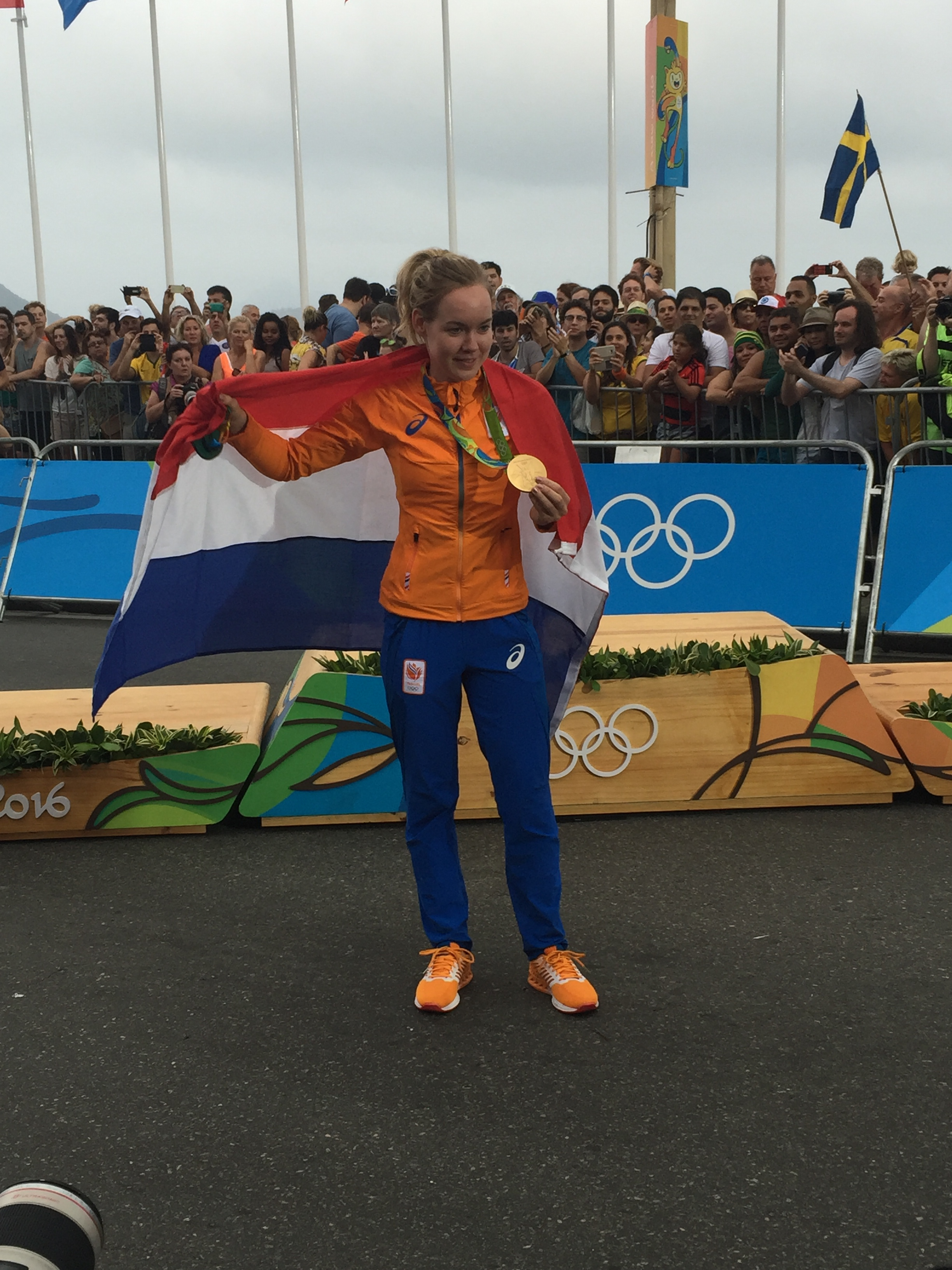 Rio 2016 - Women's road race